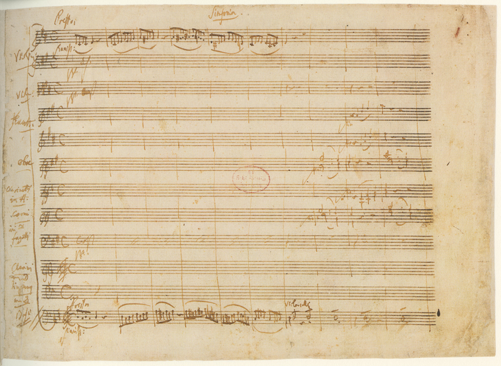 Le nozze di Figaro overture manuscript